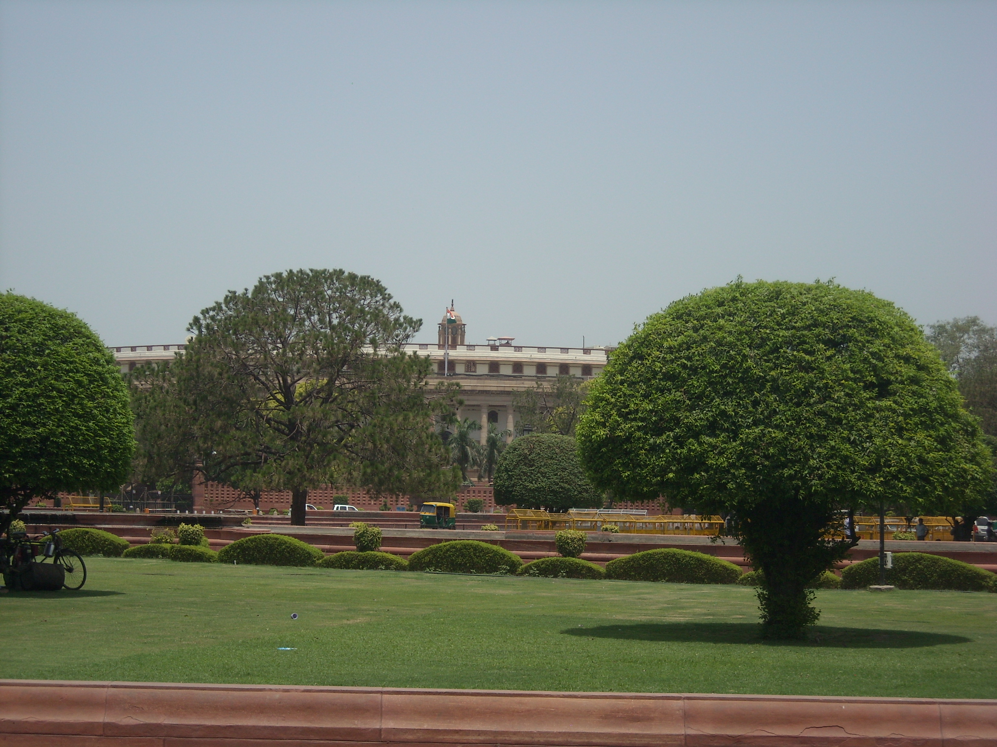 Parliament of India seen from Rajpath, New Delhi india